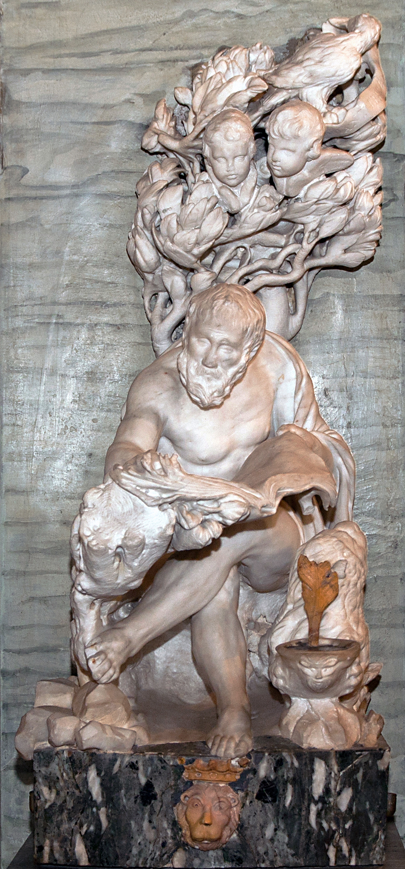 Francesco Grassia "St. Jerome", marble, Rome - San Girolamo dei Croati church